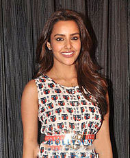 Indian actress Priya Anand during the promotional event of Rangrezz